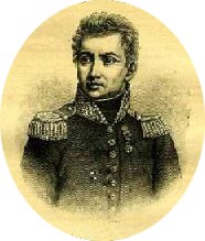 Claude François de Malet. “Claude François de Malet”, Biographie des célébrités militaires des armées de terre et de mer de 1789 à 1850, (Charles Mullié, 1851).